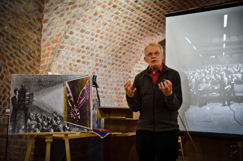 Photograph taken during a captivating lecture by Leif Preus on the invention and development of the color photography. Big on blog Series